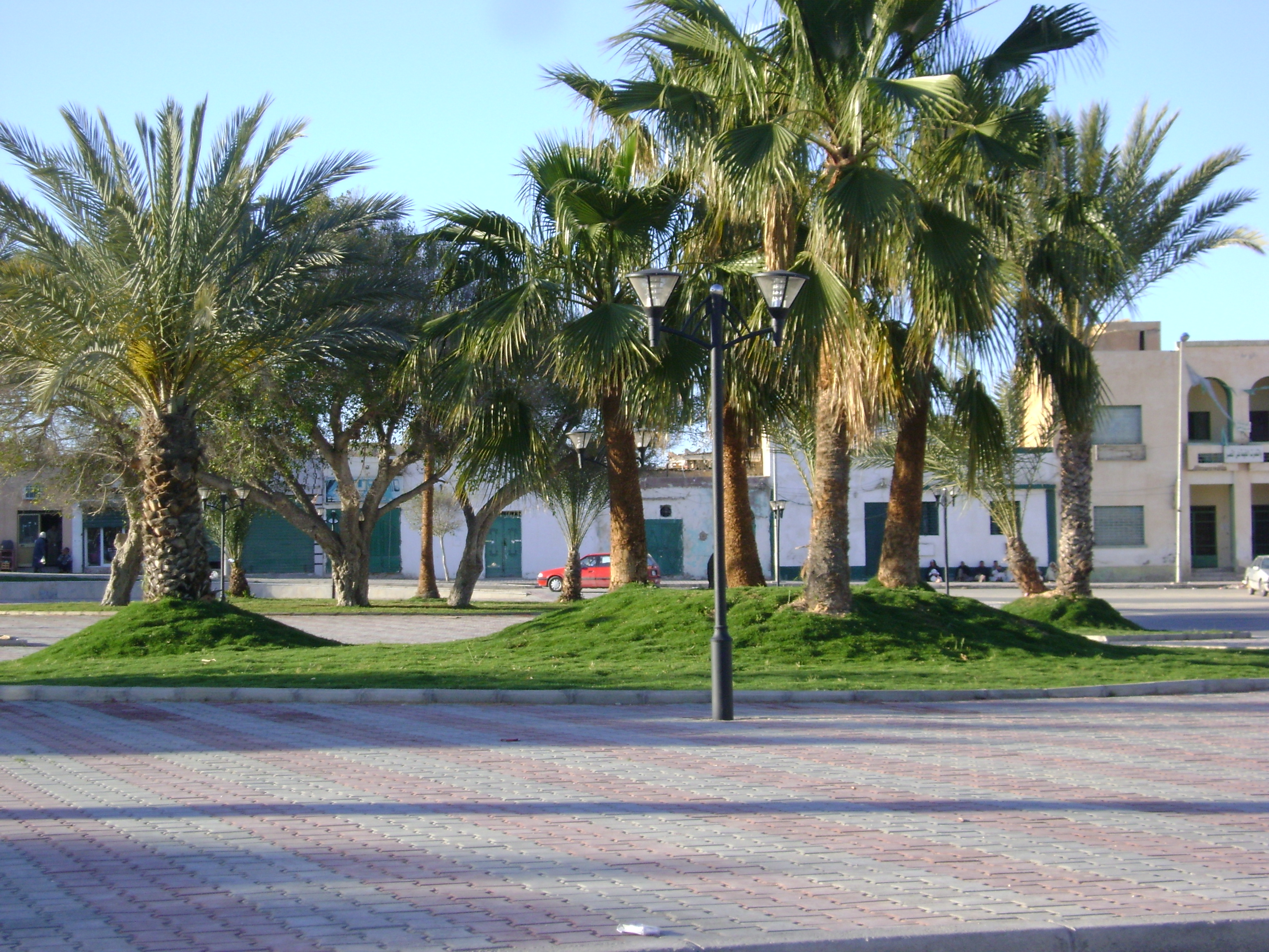 Zuwara City